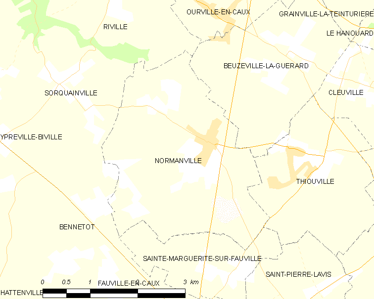 Map of French municipality Normanville